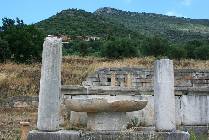 View from the ancient Messene up to the village Mavromati, to the mountain Eua, in front of the mountain Ithome (Voulknou, Βουλκάνου) in the background